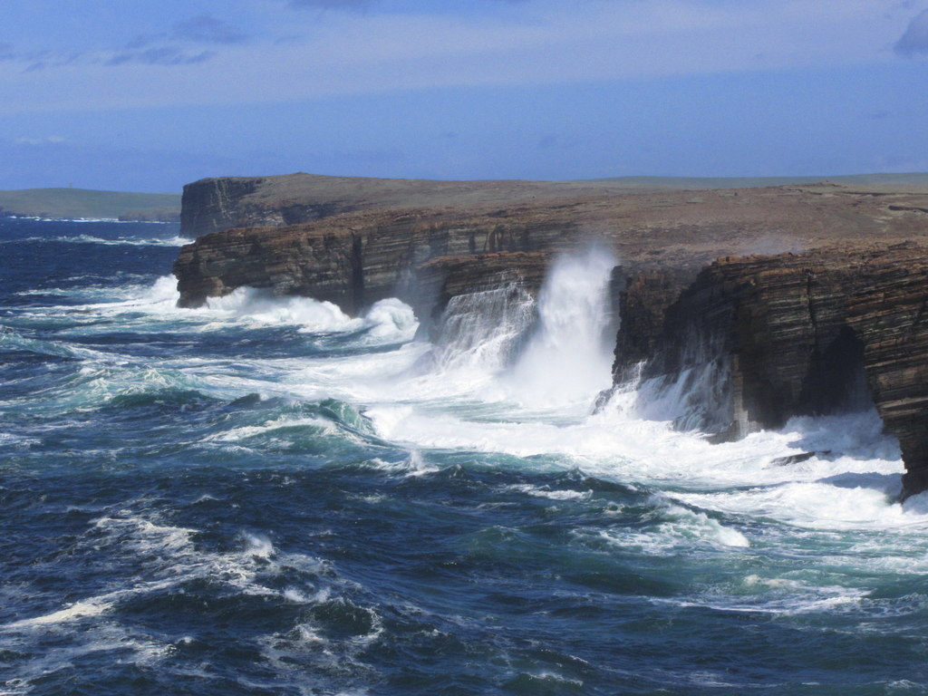 Rough seas at Yesnaby